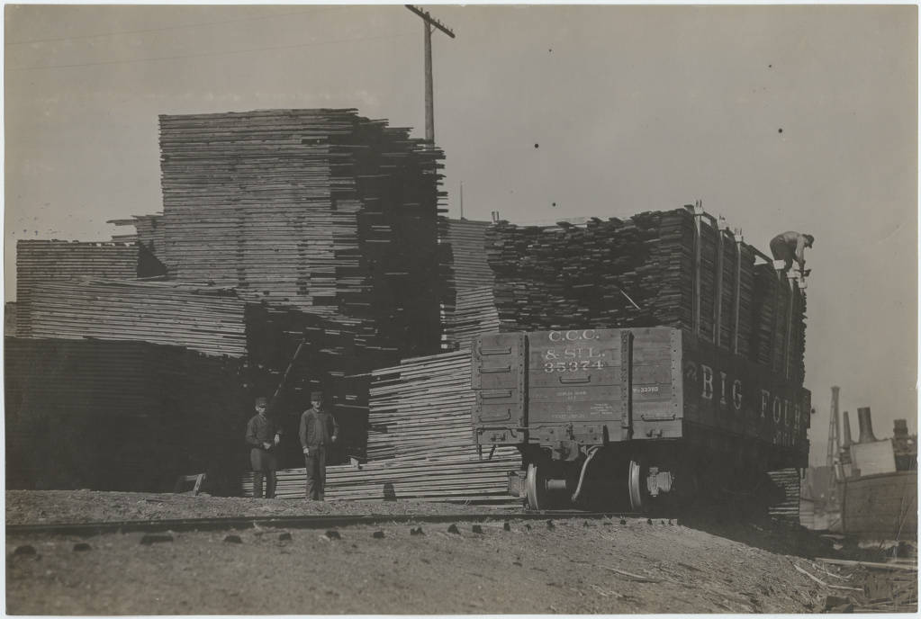 Title Cleveland Flats: Lumber Yard Subject Cleveland (Ohio)--Photographs Flats (Cleveland, Ohio)--Photographs Description Showing a lumber yard in the Cleveland Flats. Next to high stacks of lumber is a railroad car that bears the initials C.C.C. & S.L. (Cleveland Cincinnati Chicago and St. Louis Railway) and the words "Big Four." The Cleveland Cincinnati Chicao and St. Louis Railway company was known as the Big Four. A man can be seen atop the lumber pile on the railroad car. Date (Alpha) 1912 Date 1912 Type Still Image Original Format Photographs Format Note Photograph, silver gelatin developed-out print,6-5/16 H x 9/38ub W. Digital Format image/jpeg Location Cleveland (Ohio) Cuyahoga County (Ohio) Ohio Original Collection Cleveland Picture Collection Location of Original Cleveland Public Library. Photograph Collection. Standardized Rights Statement Rights This work is free of known copyright. For more information, please go to: Rights License Public Domain Mark 1.0 Data Provider Cleveland Public Library Identifier cp0 2847Flats